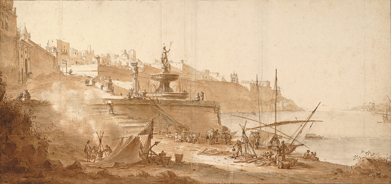 17th-century view of Valletta's Grand Harbour, Malta, 1664, W. Schellinks, graphite pencil, brown ink, sepia wash